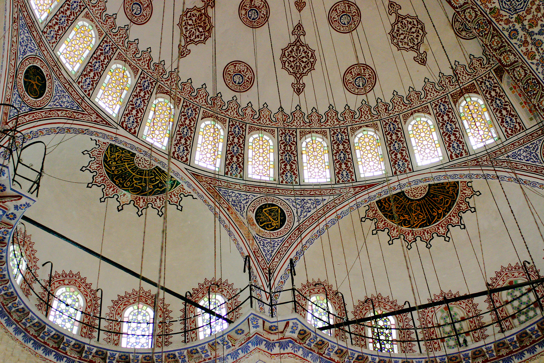 Interior view of Sultan Ahmed Mosque.